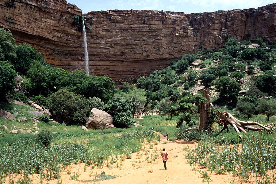 A partial view of the Bandiagara Escarpment near Mopti, Mali.